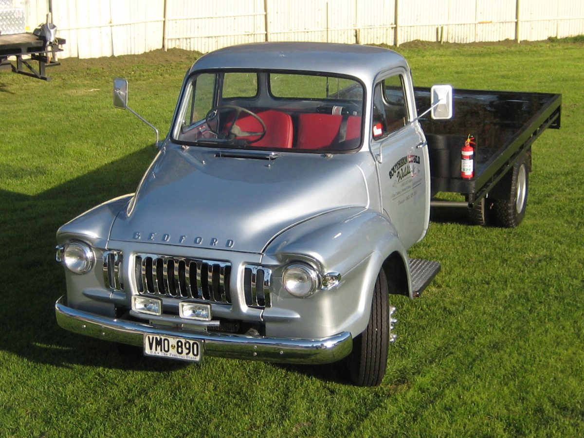 J3 Bedford Truck